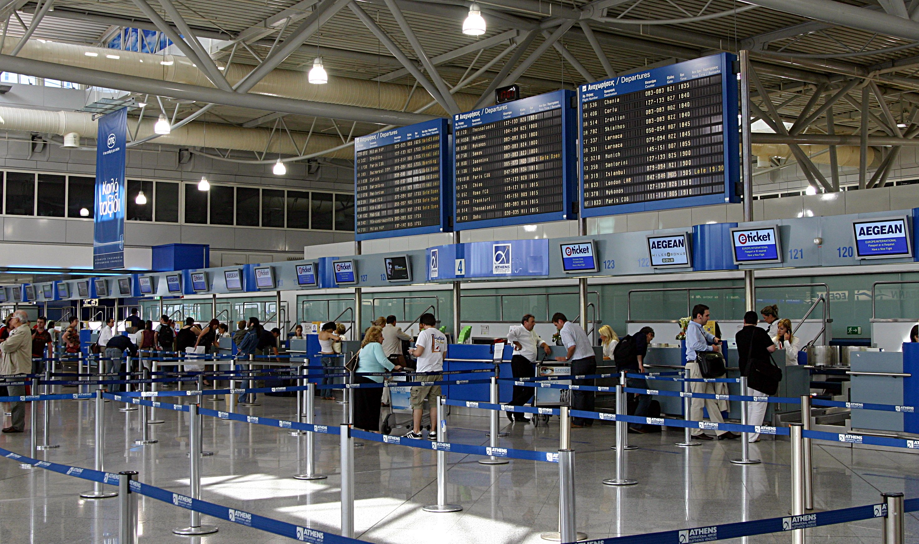 The Check-in desks at Athens International Airport